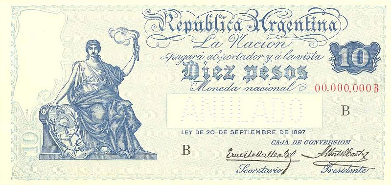 10 Pesos Moneda Nacional banknote of Argentina.